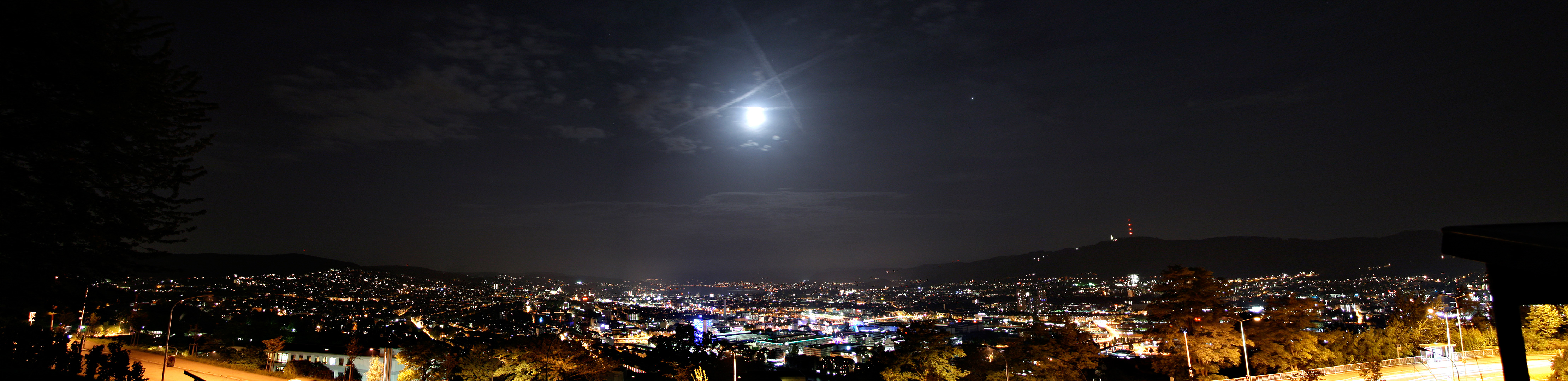 Panoramic view over Zurich from the Waid.